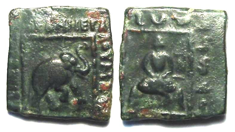 Coin of Maues. Personal photograph, 2005. Released in the Public Domain.